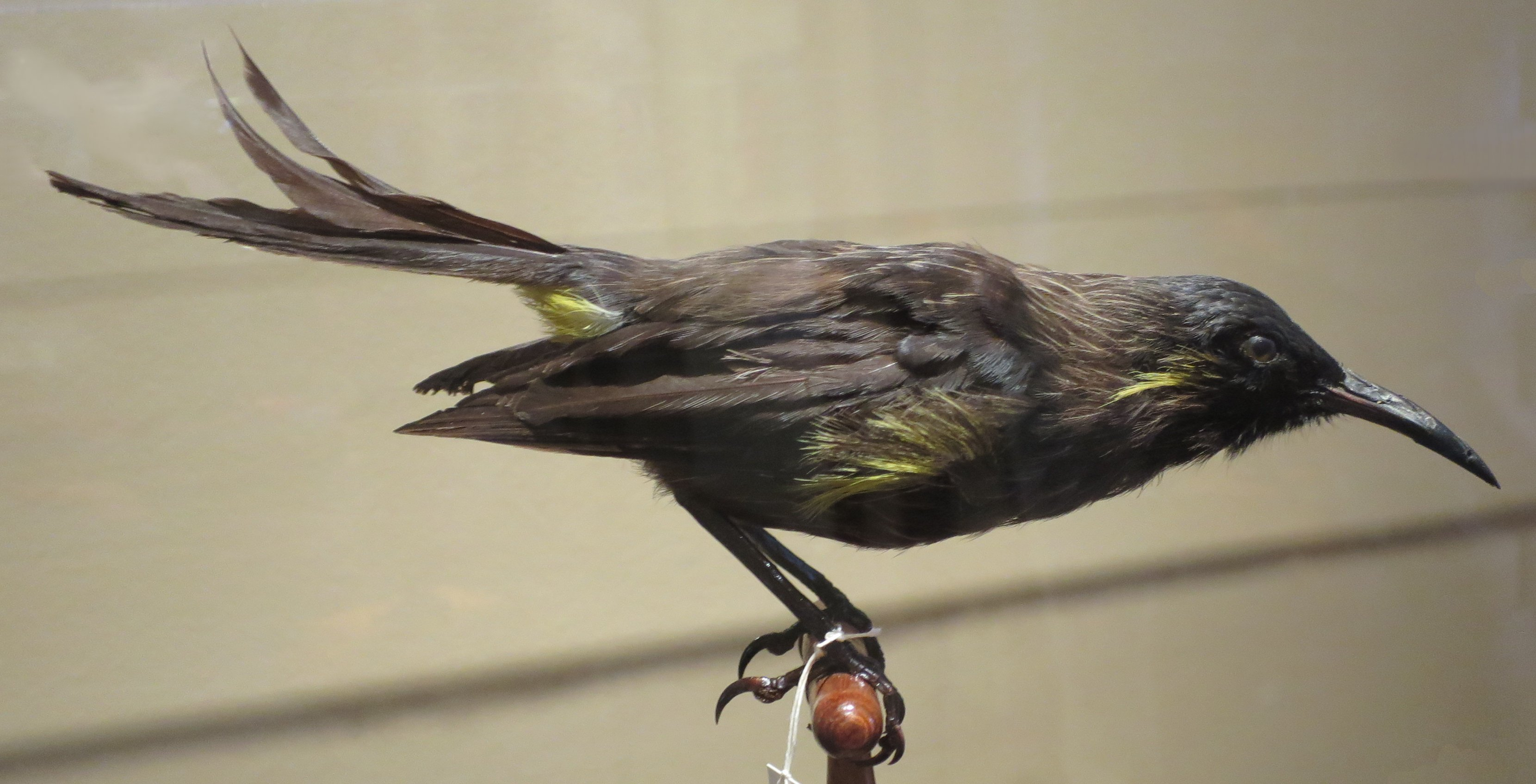 Moho bishopi (Bishop's 'Ō'ō), Bishop Museum, Honolulu